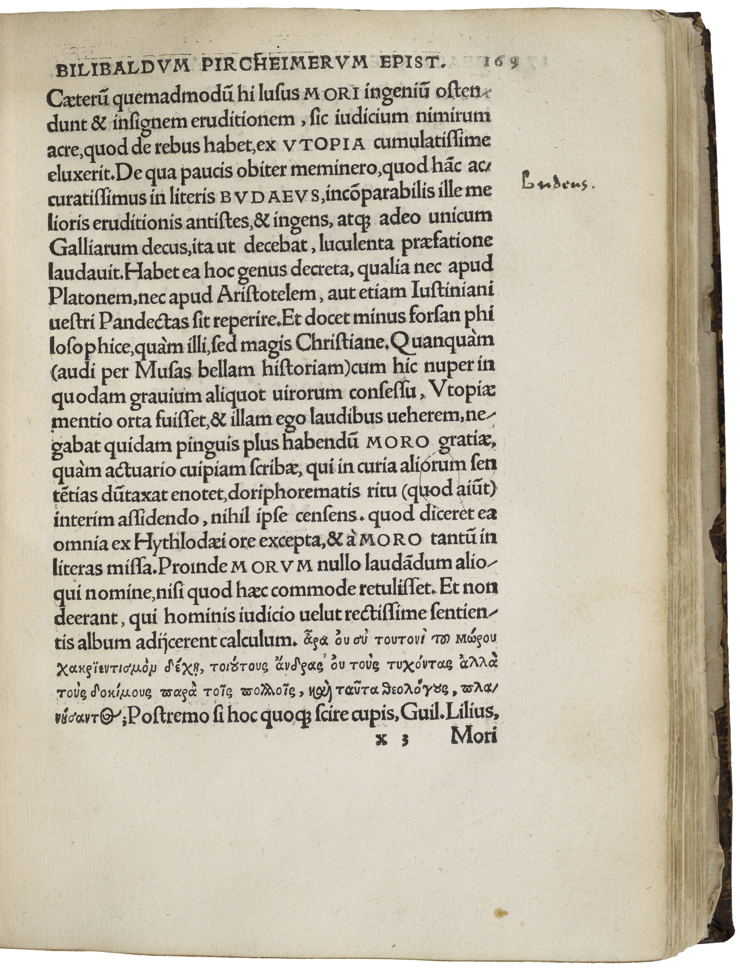 This is the page 173 of Beatus Rhenanus' letter to Willibald Pirckheimer, in which B. Rhenanus relates a story about Utopia's reception (Th. More's Utopia, 1518 november)